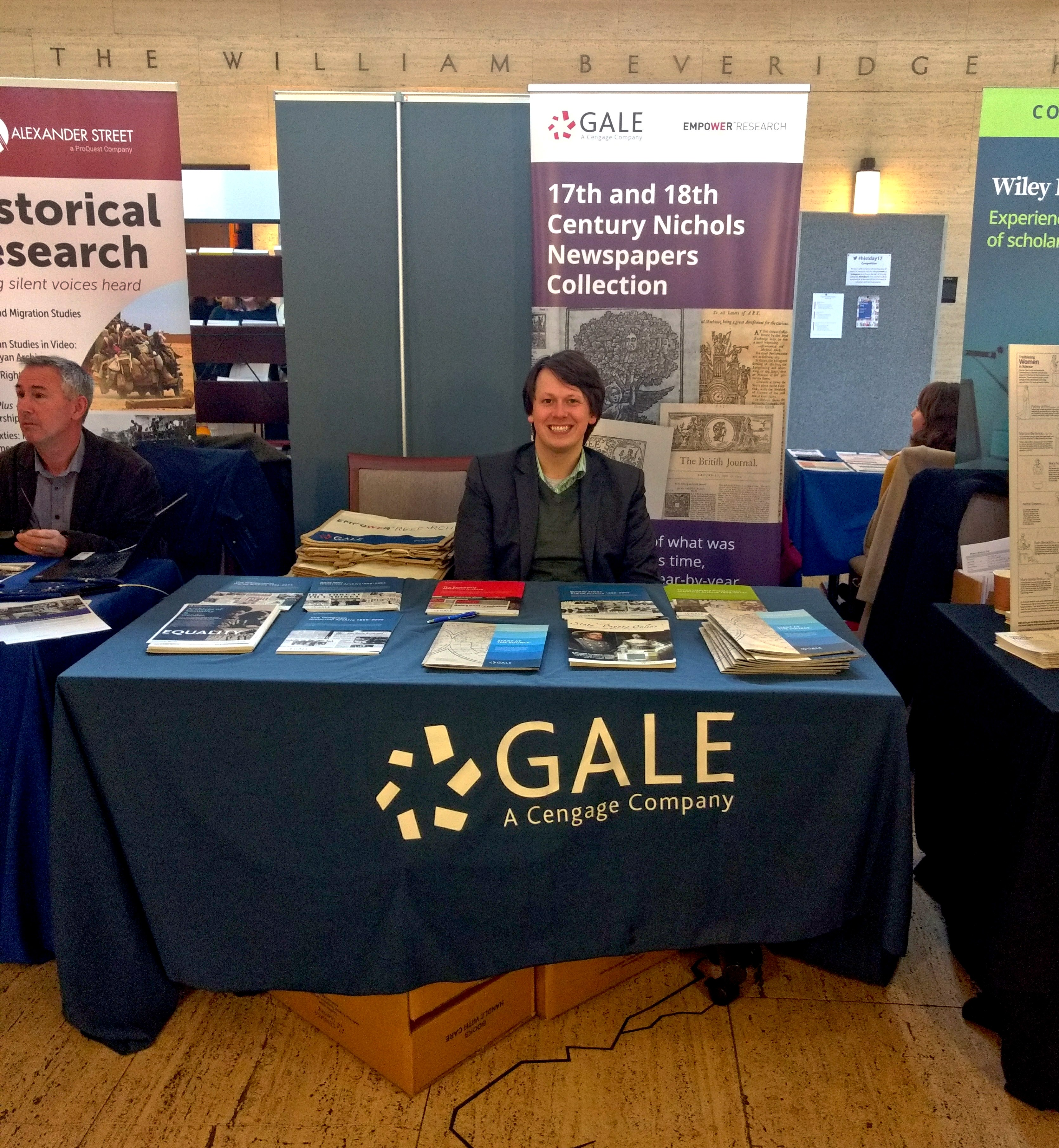 Gale Cengage at the School of Advanced Study History Day Oct 2017